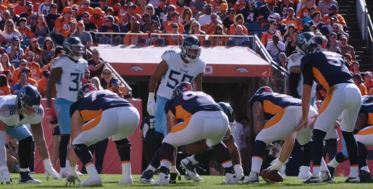 Joe Flacco 2019. Image from video Wesley Woodyard Mic'd Up vs. Broncos (Week 6) | Tennessee Titans, ~ 00:31